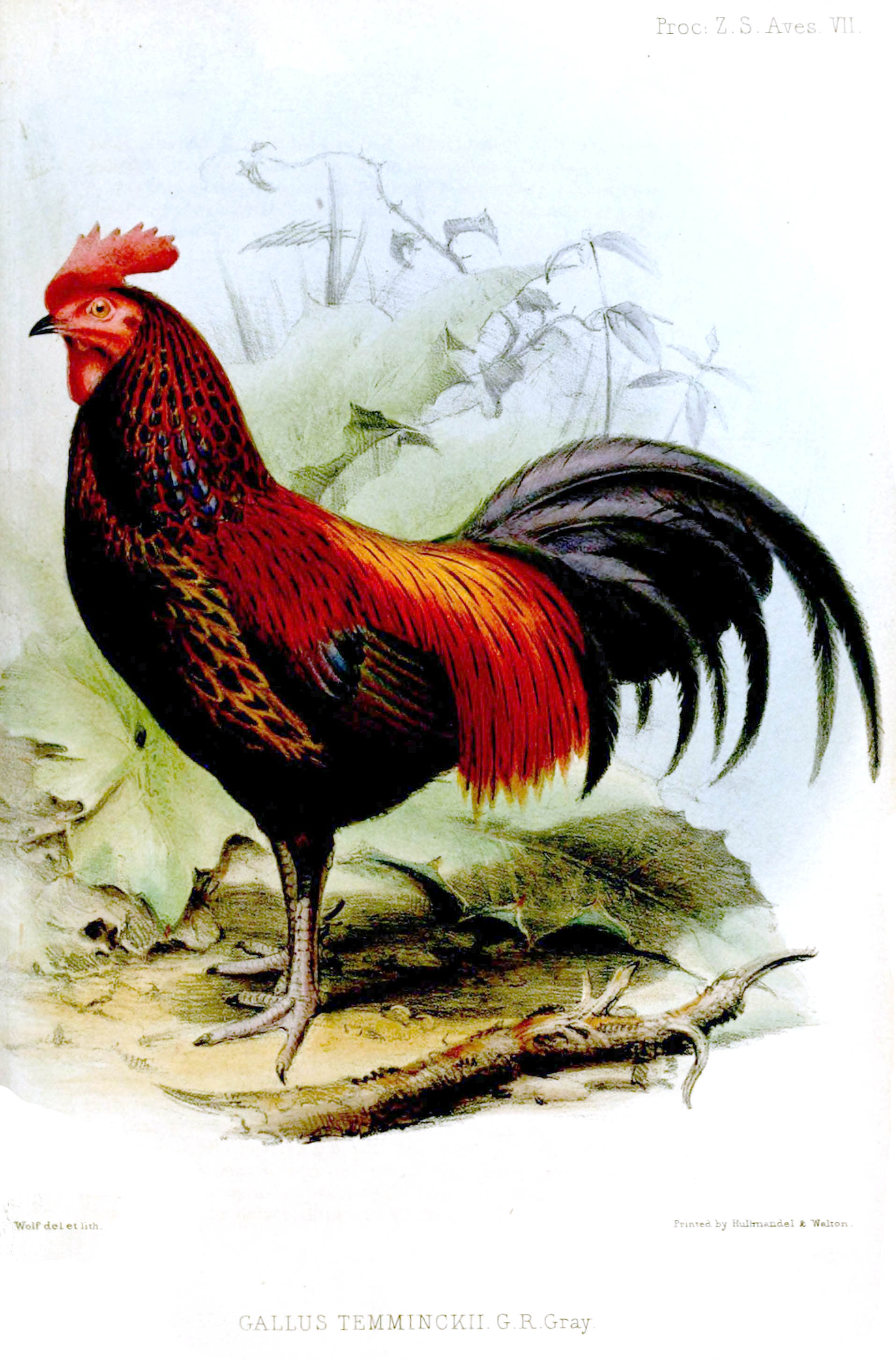 Ayam Bekisar (temminckii-type), adult male